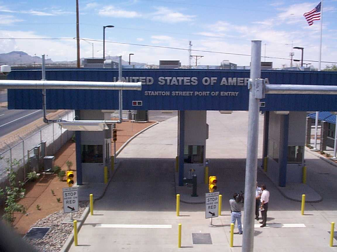 El Paso Stanton Street Port of Entry as seen just prior to its grand opening in September 1999